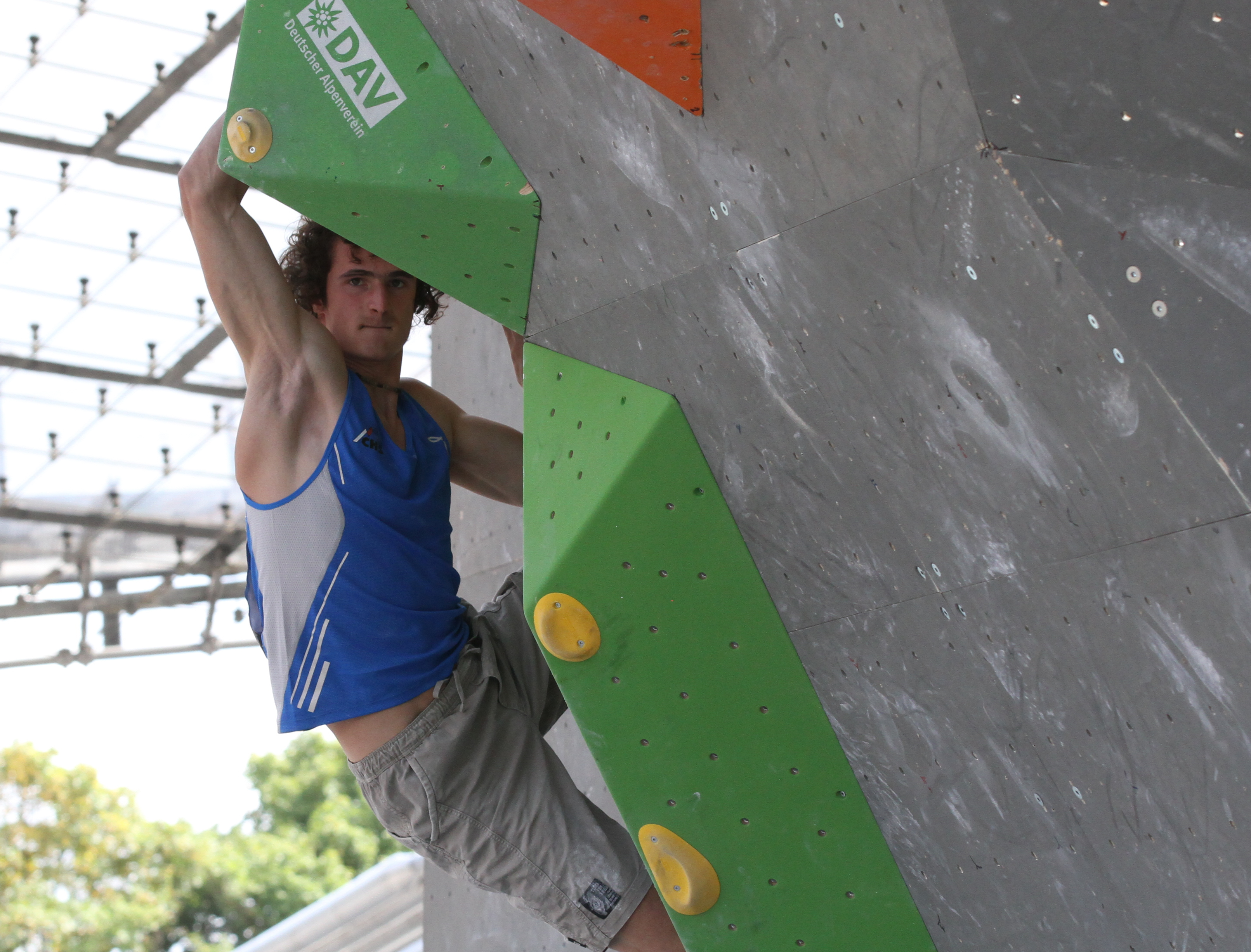 IFSC Boulder Worldcup, Munich 2015. Adam Ondra (CZE)